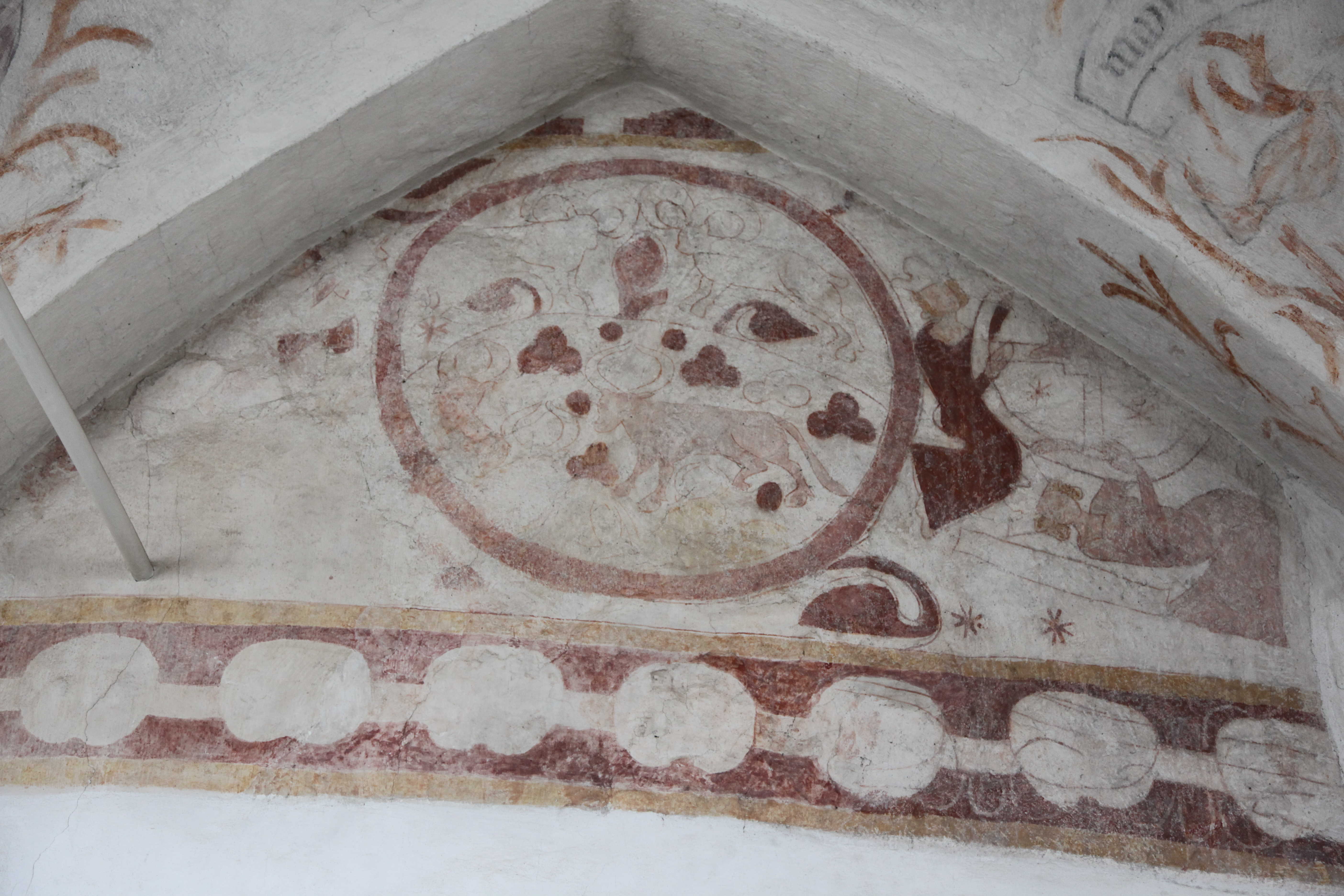 Ågerup church, Denmark